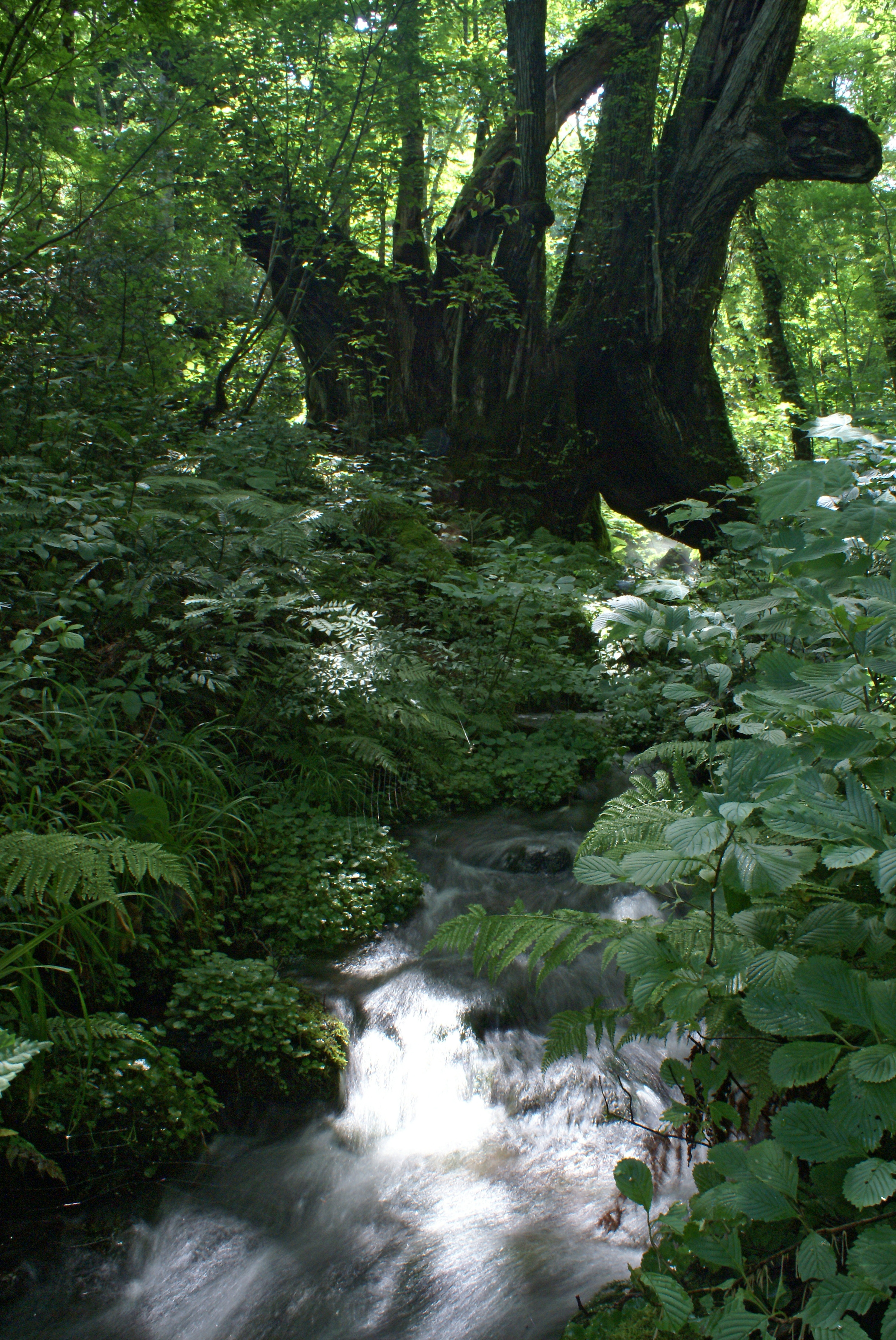 The brook of springwater "Sennen-sui", and the tree of Katsura (Cercidiphyllum japonicum) for age-of-a-tree 1000 years "great Katsura of Wachi" in Torokawataira, Kami, Hyogo, Japan